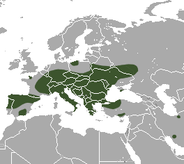 Mediterranean Water Shrew (Neomys anomalus) range